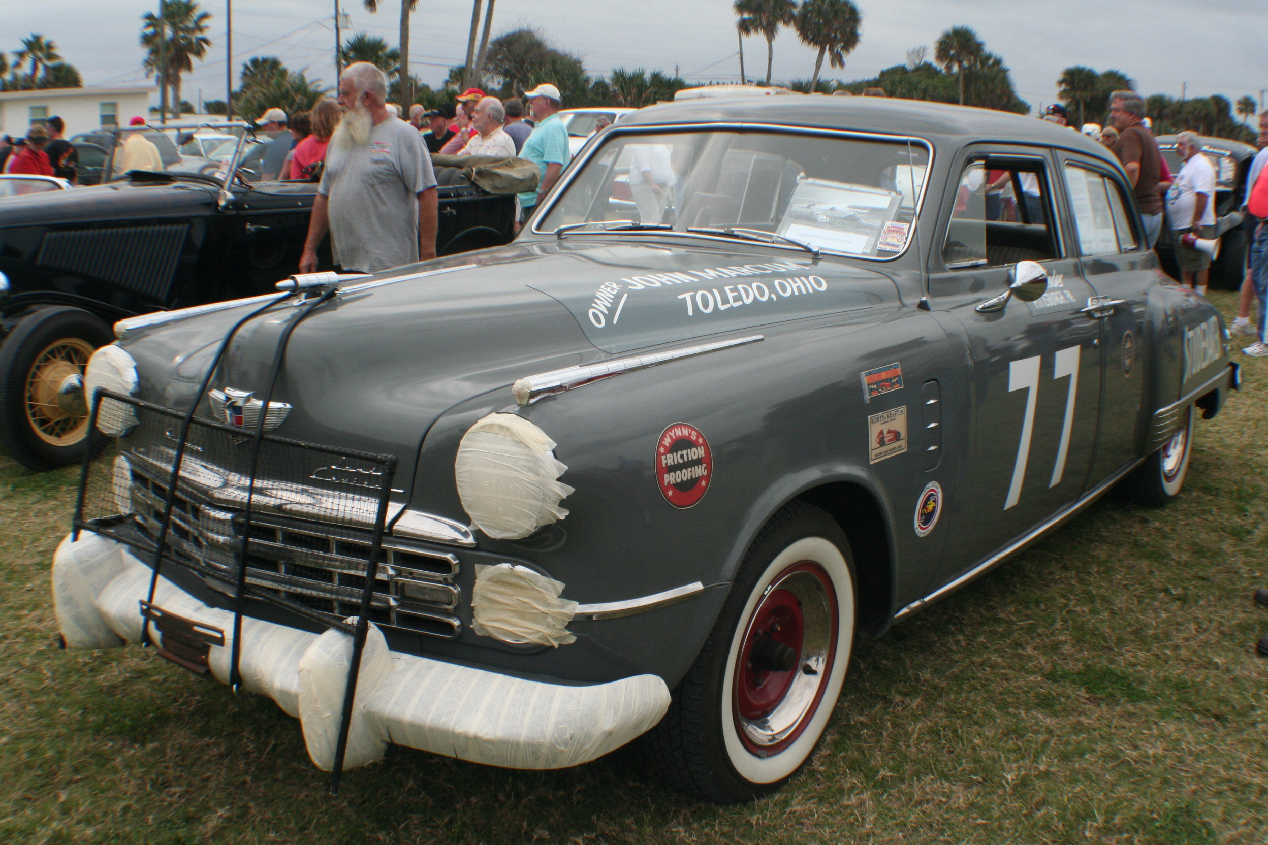 Shot by "The Daredevil" at Daytona during Speedweeks 2008. John Marcum was the ARCA founder. He was a NASCAR car owner for 2 races; this is the car that was driven by Dick Linder on the Daytona Beach and Road Course in 1951. (Note that despite this being a 1951-campainged car it uses the 1948-1949 body style; this was common in that era.